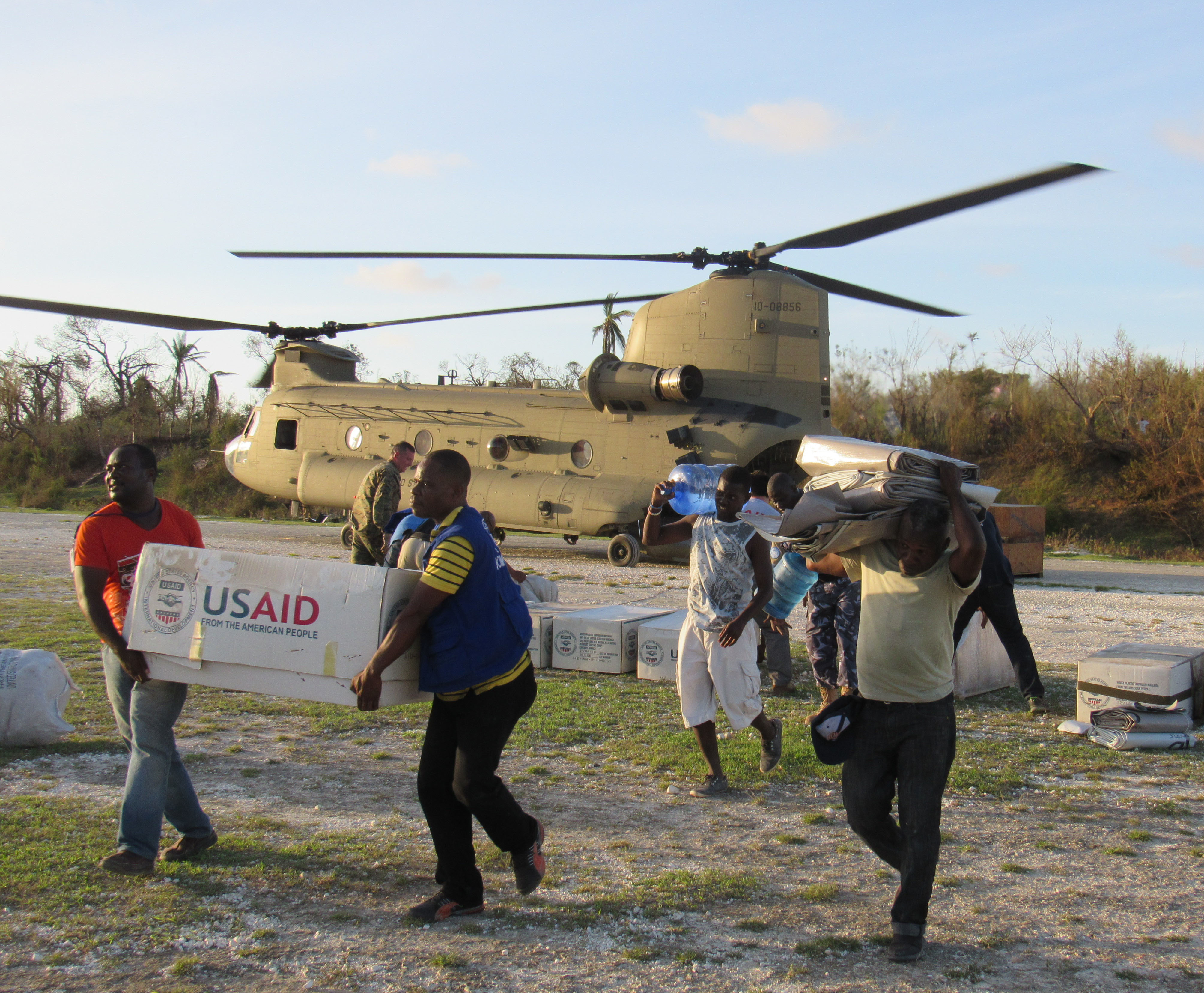 JEREMIE, Haiti (Oct. 7, 2016) Service members from Joint Task Force Matthew and representatives from the United States Agency of International Development delivered relief supplies to areas affected by Hurricane Matthew to Jeremie, Haiti. JTF Matthew, a U.S. Southern Command-directed response team deployed to support U.S. disaster relief operations in the Caribbean in response to Hurricane Matthew, delivered over 10,000 pounds of supplies on its first day of operations. (U.S. Marine Corps photo by Capt. Tyler Hopkins/Released) 161007-M-JL916-549 Join the conversation: navylive.dodlive.mil